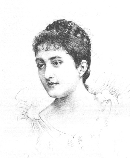 Portrait of Stephanie Hildburg (1849-1921), Austrian actress